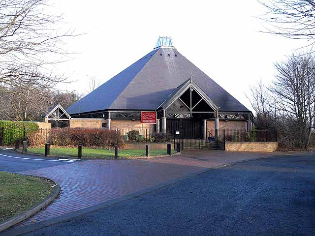 St John Boste Catholic Church in Oxclose, Washington, Tyne and Wear, Northeast England.